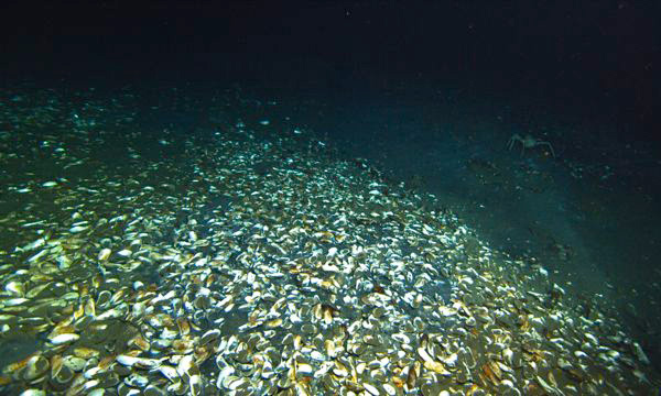 A mussel bed at the edge of the brine pool (Deep sea : in "Green Canyon 246" (GC246)). Image : Lophelia II 2010 Expedition, NOAA-OER/BOEMRE.